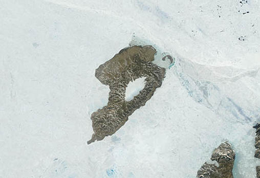 Terra MODIS satellite image of Meighen Island, Canada.